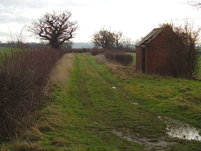 Course of Belvoir (Beaver) Castle tramway The horse drawn tramway was built to carry coal from the Grantham canal to the cellars of Belvoir Castle. A section of rail is on view in the National Railway Museum at York.